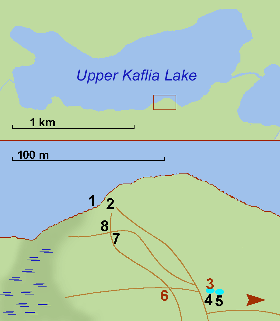 Attempt to improve on below quoted sketch by using approximate distances in between relevant waypoints as provided by Ranger Joel Ellis. Brown arrow indicates a major bear trail leading to the "creek of the salmon run". Numbers mean: 1 - Floatplane moored 2 - best access to the camp 3 - Amie's remains 4 - sleeping tent 5 - "gear" tent 6 - Tim's remains 7 - corpse of bear 141 8 - corpse of young bear As details of the coastline differ up to 30m between avaiable map and satellite views, which affects the display of GPS-provided waypoint, I adapted the coastline to the satellite view. Distances in between waypoints were taken as ascertained. Nevertheless, they can not be shown properly: 2m (Amie's remains -- sleeping tent) would just be 15 pixels. Distances, as given by ranger Ellis: 2--3: 80m 2--7: 20m 2--8: 18m 3--4: 2m 3--5: 6m 3--6: 30m 3--7: 68m